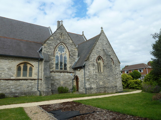 South corner of St Mark's parish church, Woolston, Southampton, Hampshire, seen from the southwest